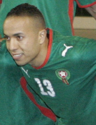 Houssine Kharja (Morocco) before the friendly match against Czech Republic on February 11, 2009